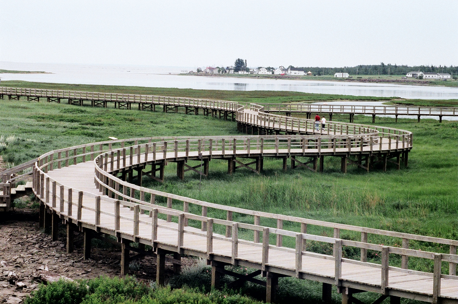 The boardwalk across the dunes in the Irving Eco-Centre in Bouctouche, Kent County, New Brunswick, Canada. The picture was taken with a 30 year old Nikon FE using iso 1600 Superia print film.